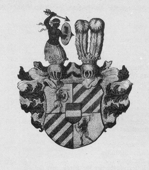 Coat of Arms of german aristocratic family "von Heider"